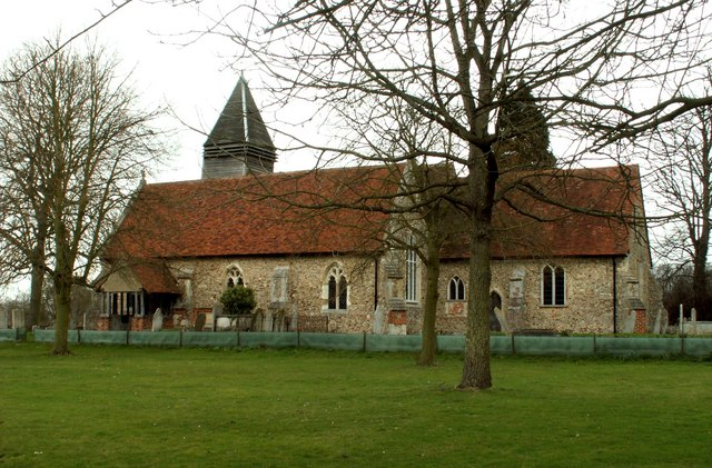 St. Mary's church, West Bergholt, Essex. This church is mainly 14th century but the wooden belfry is 15th century. It stands close to the hall.